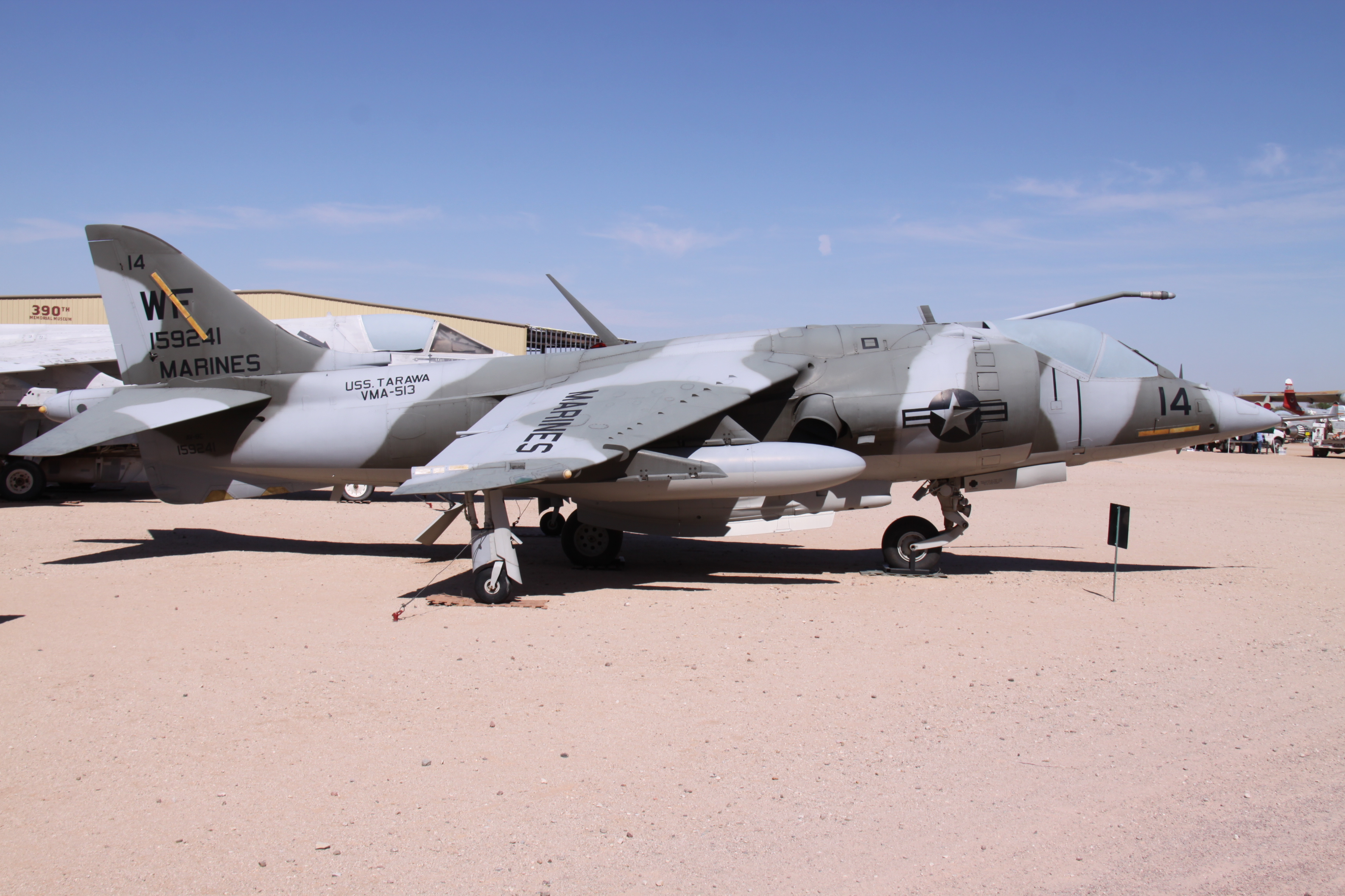 At Pima Air & Space Museum